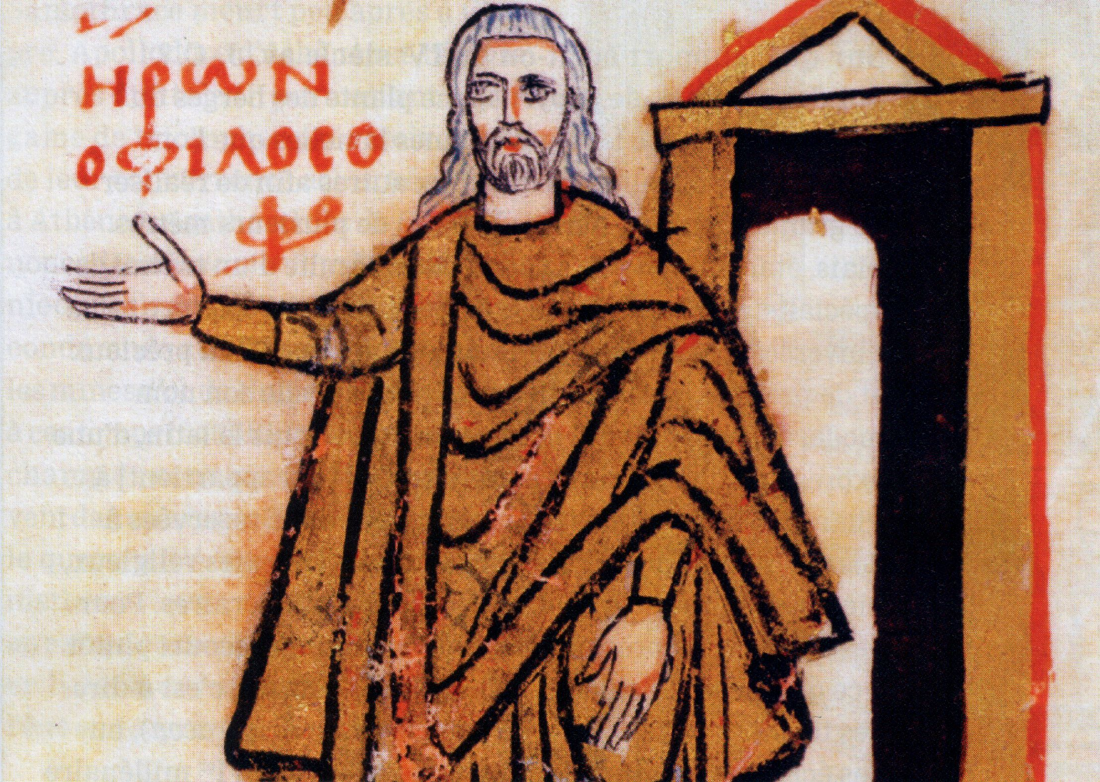 Hero of Alexandria. Codex of Saint Gregory Nazianzenos. Greek manuscript of the ninth century.